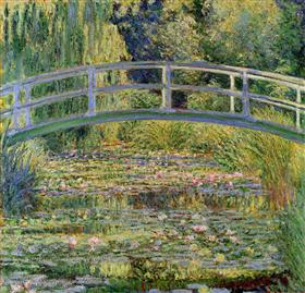 Work by Claude Monet